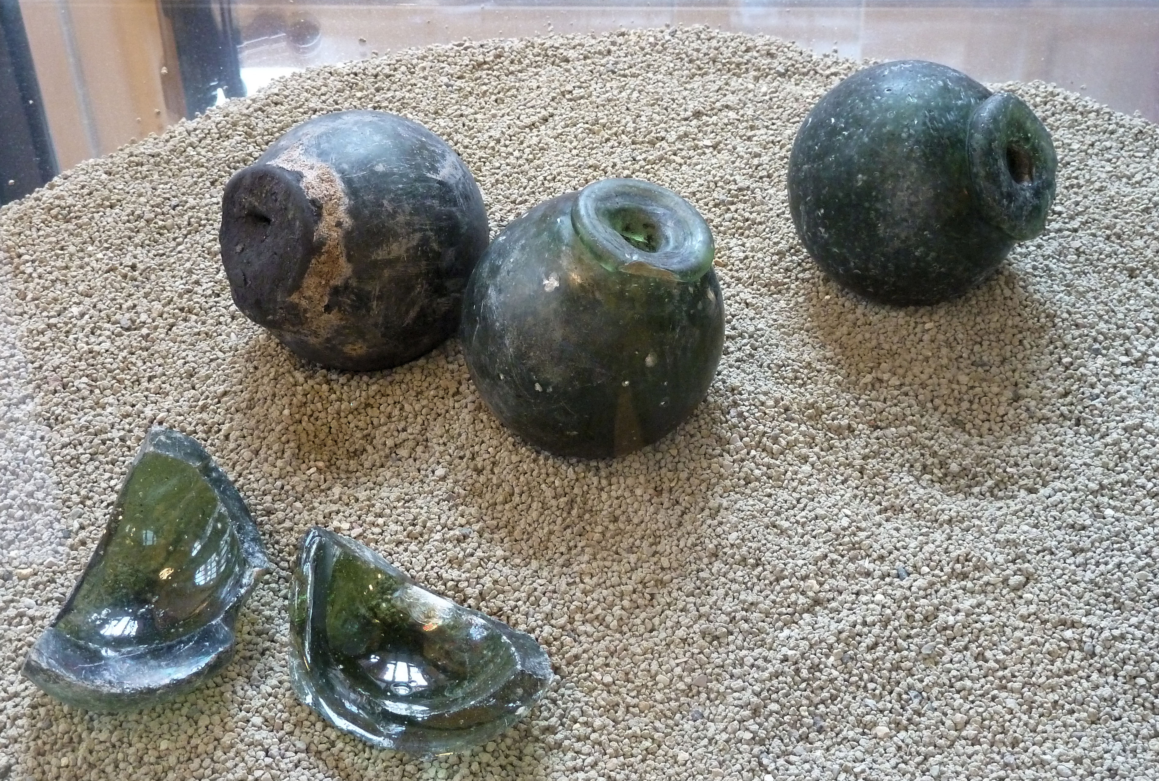 [French ?] Glass hand grenades from 1740, excavated at the site of the former Dominican monastery in Freiburg, Germany